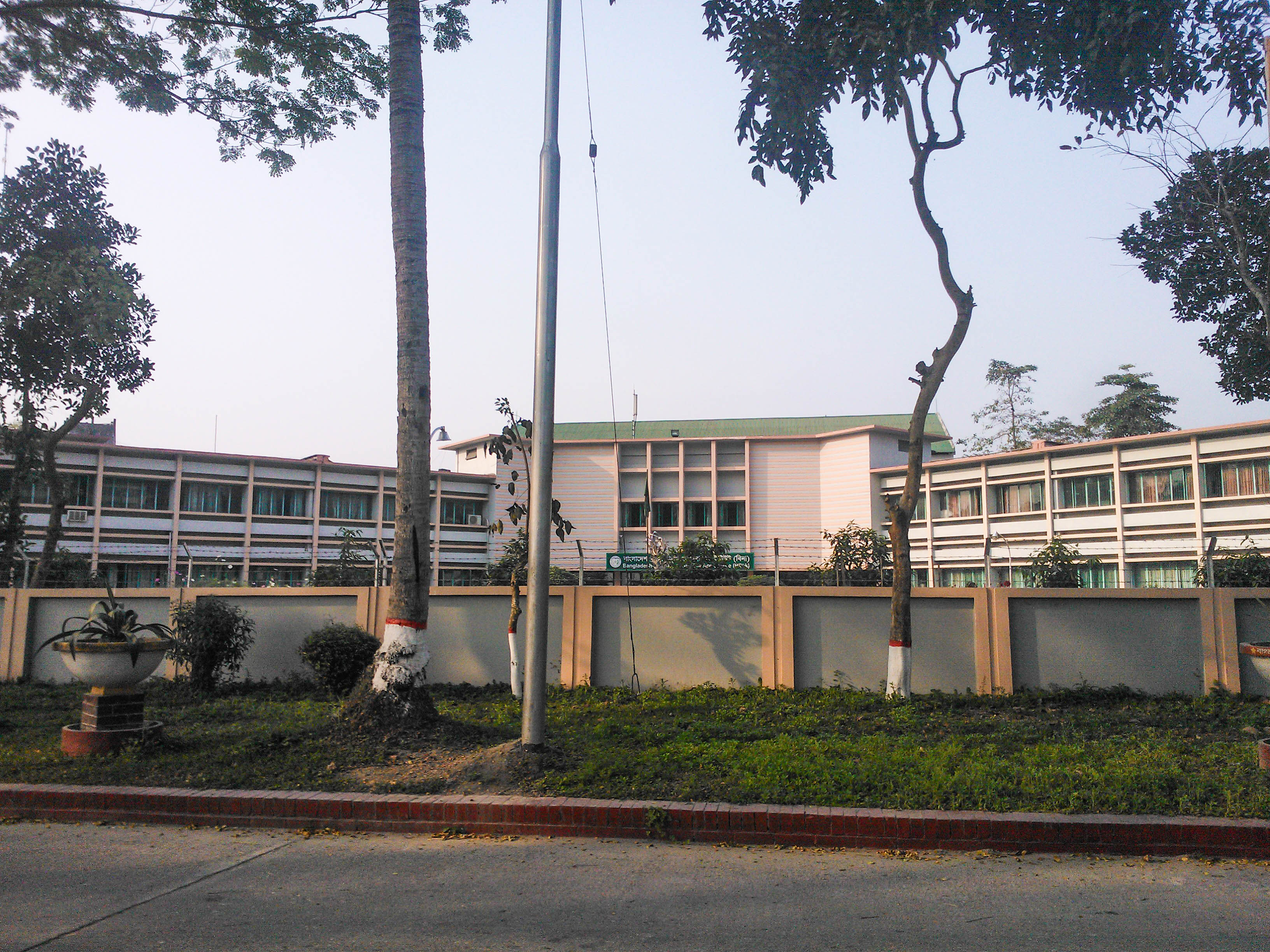 Headquarter of Bangladesh Institute of Nuclear Agriculture (BINA), Mymensingh.